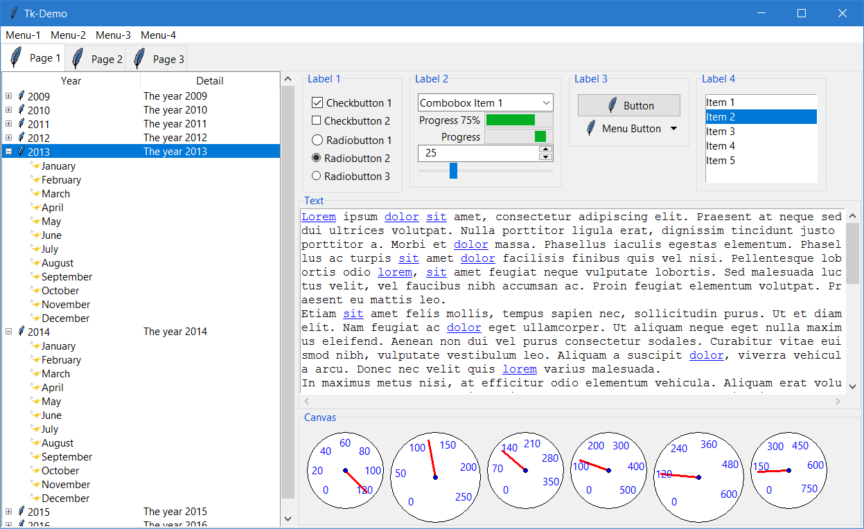 This is a screenshot to be used on Tk in the infobox on the right side as a screenshot to showcase most widgets of the Tk widget toolkit.